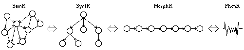 a diagram of the structure of Meaning-Text Theory